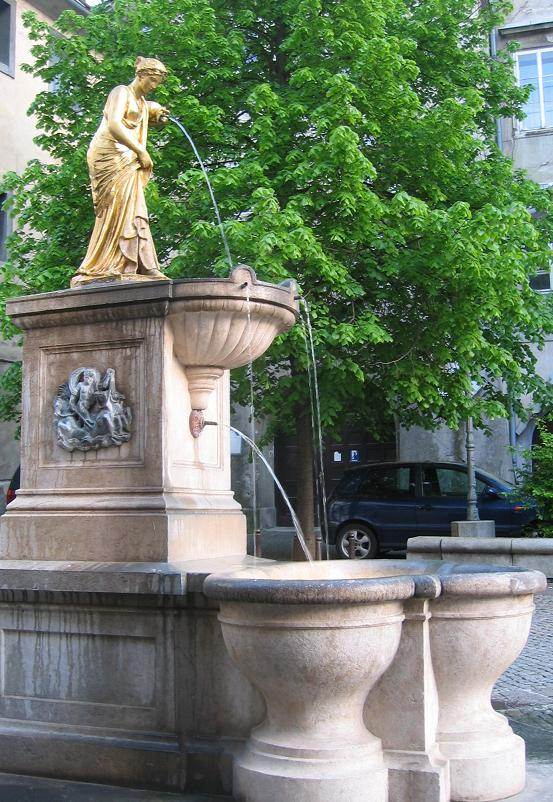 The fountain named Virgin at Fish Square in Ljubljana. It was made in the Neoclassical style in the mid-19th century and depicts a scene from the Greek mythology. The reliefs at the sides of the pedestal depict the god Poseidon. The fountain is a replica from 1997. The iron statue of the girl was gilted at the last renovation by Vasja Urlih. photo:Ziga 22:18, 1 May 2006 (UTC)